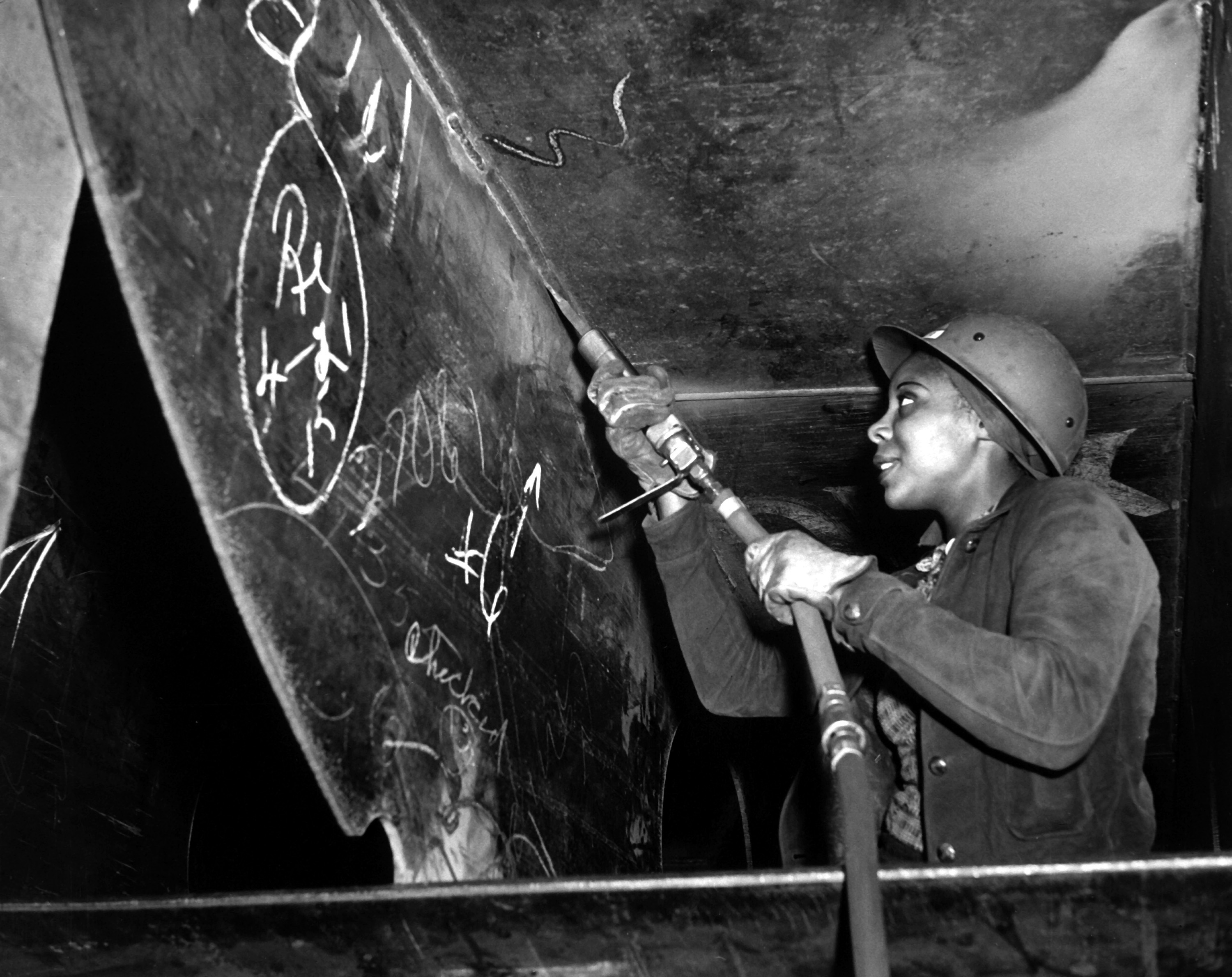 Miss Eastine Cowner, a former waitress, is helping in her job as a scaler to construct the Liberty ship SS George Washington Carver